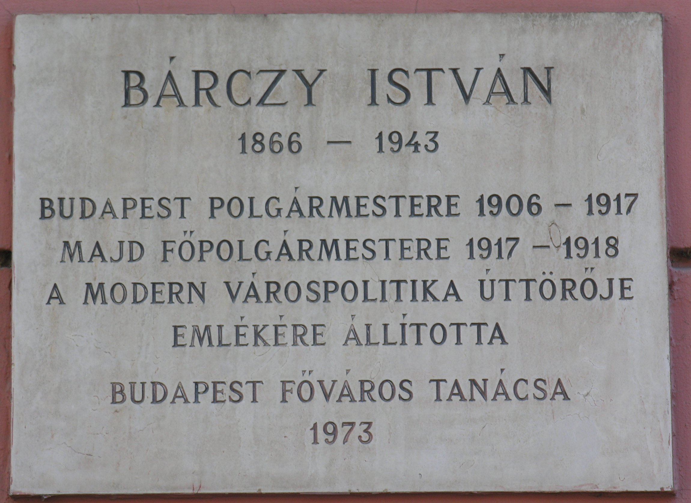 Commemorative plaque of István Bárczy in Budapest District V, Bárczy István Street No 1